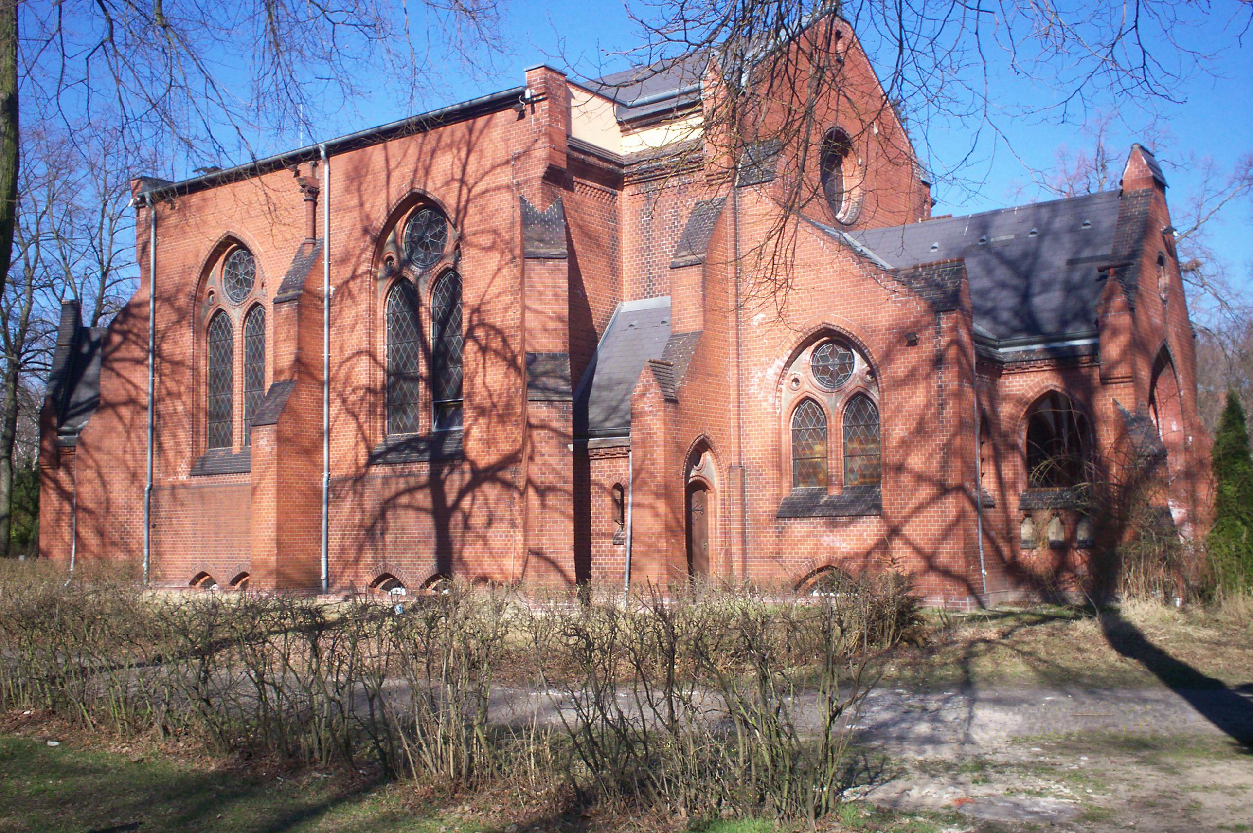 The St. Boris the Baptizer Cathedral in Berlin: Seen from Southeast Die St.-Boris-der-Täufer-Kathedrale in Berlin: Ansicht von Südosten